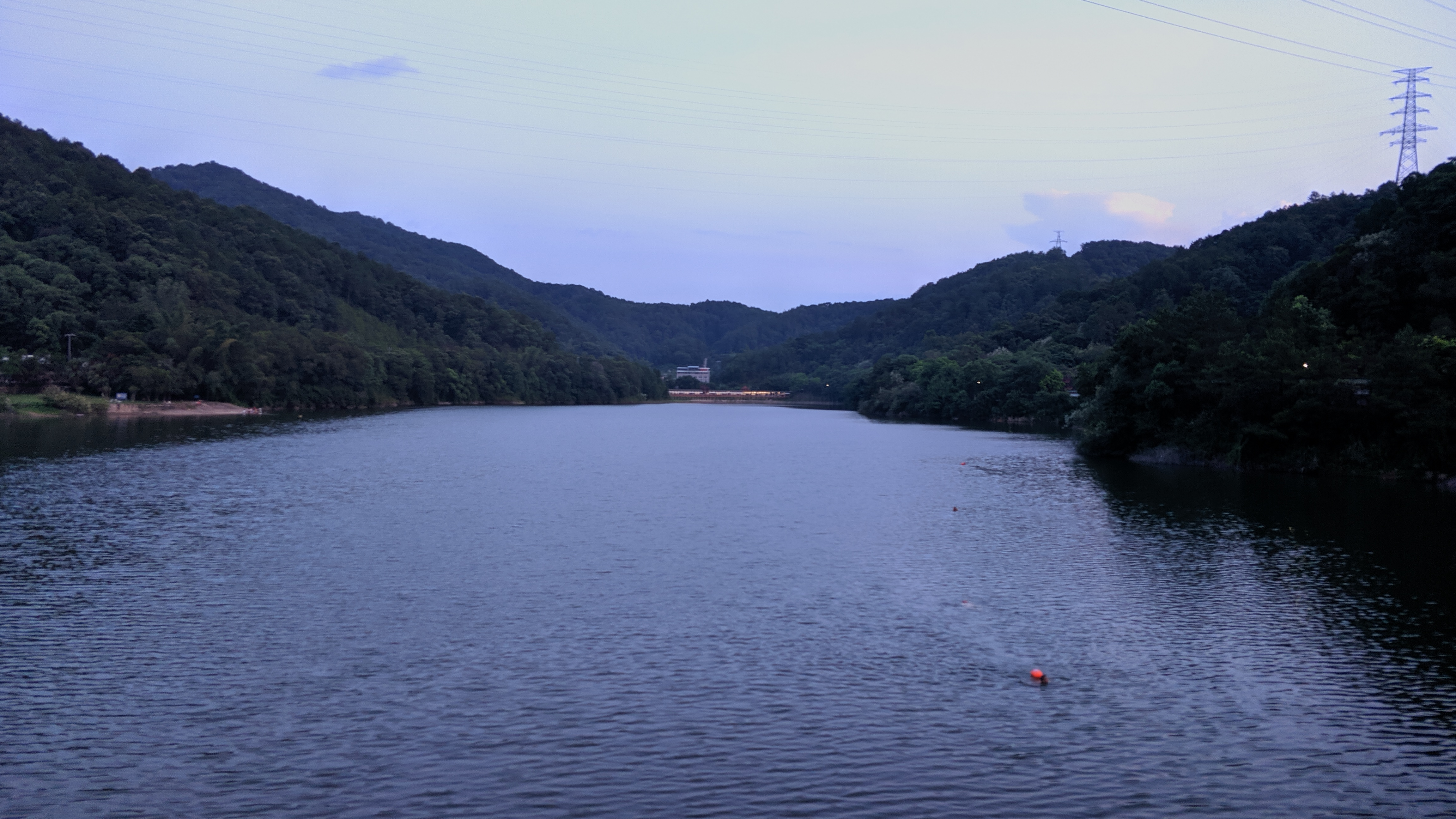 Meizhou Putou Reservoir